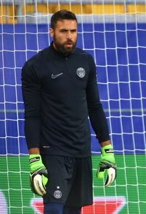 Salvatore Sirigu